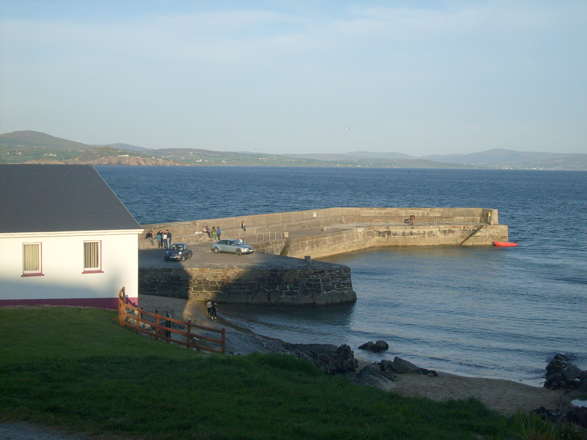 Portsalon Pier and Lough Swilly, Co Donegal, ÉIRE (Ireland)